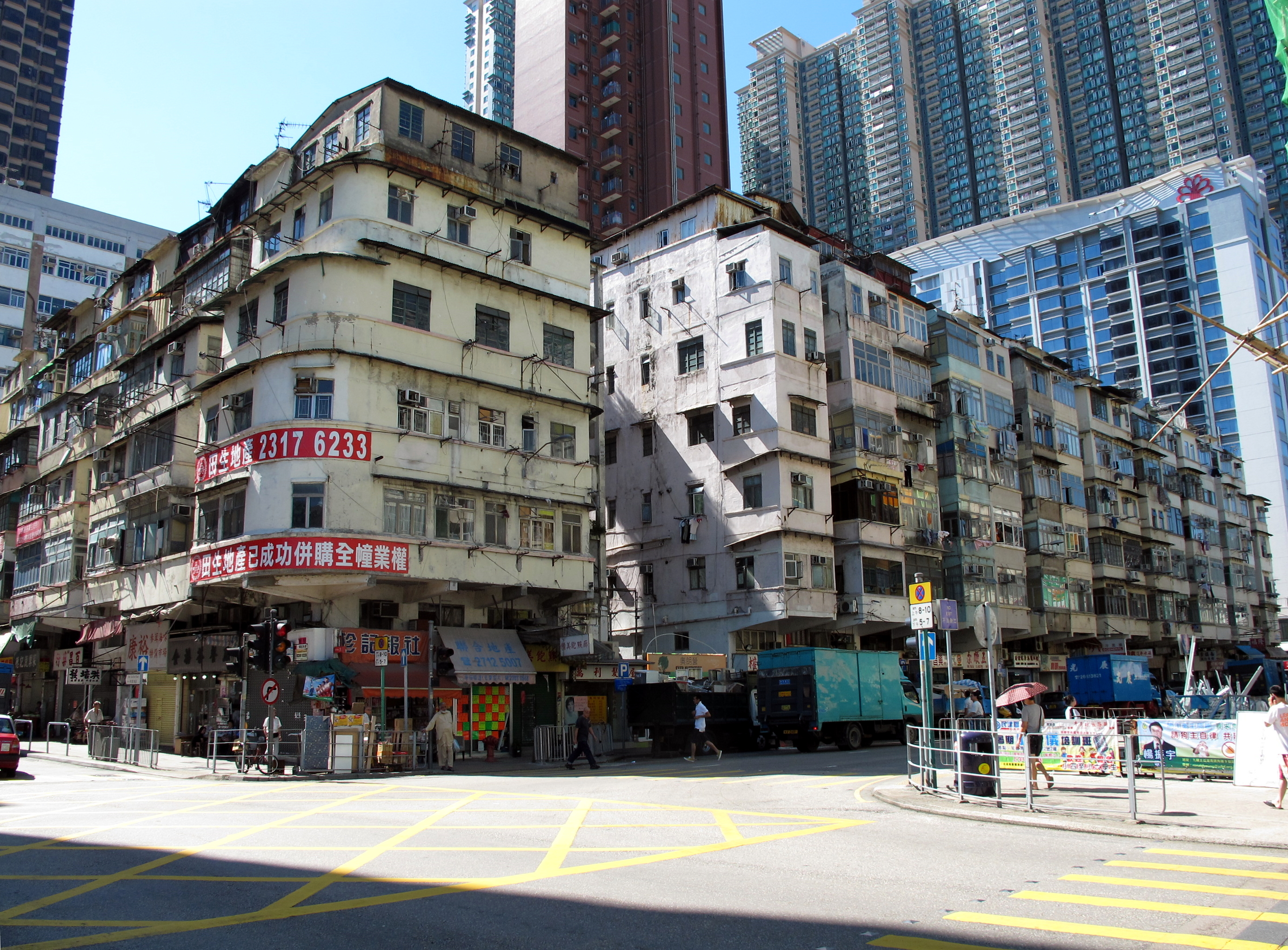 Kowloon City Road